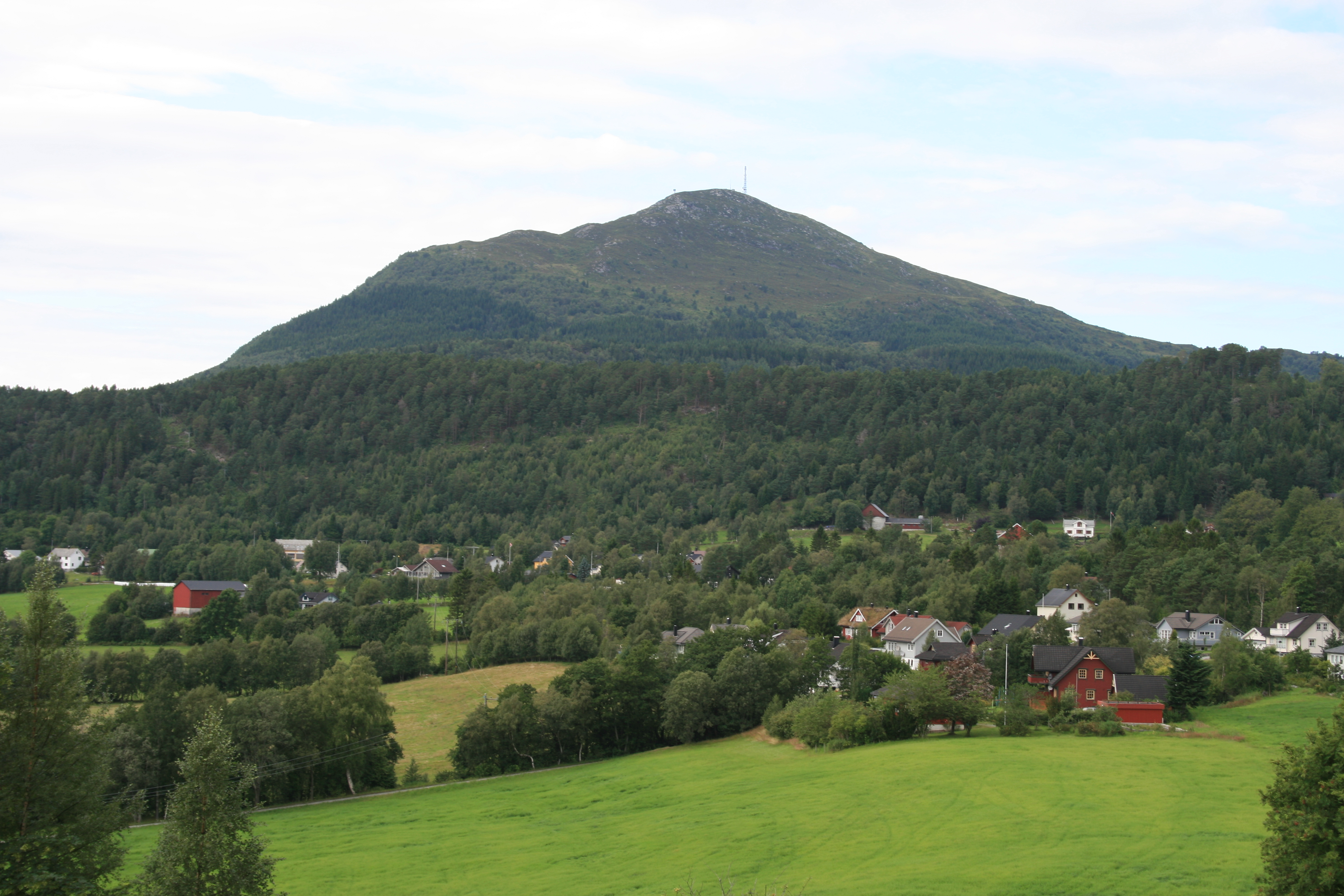 Helgehornet, Volda, Norway as seen from Eksetsvingen, E39